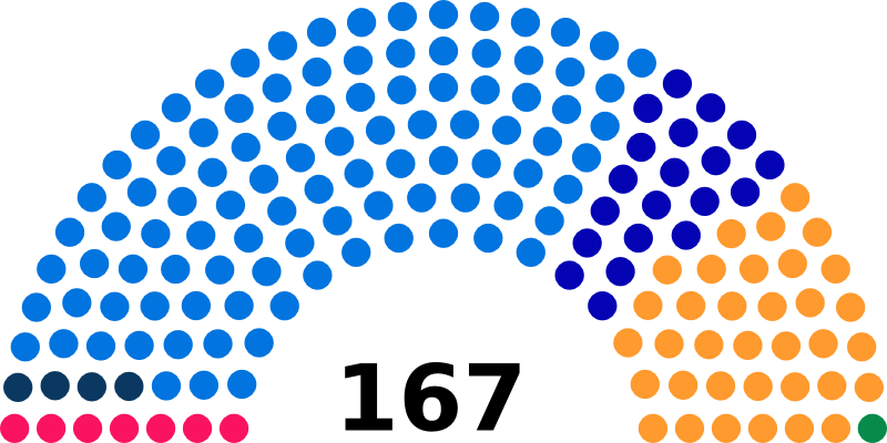 Seats diagramme of Swiss National Council (1902)